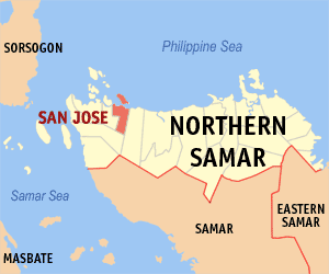 Map of Northern Samar showing the location of San Jose